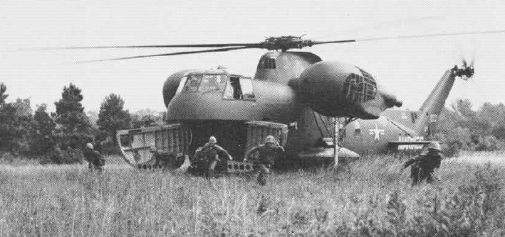 Marines debarking from a Sikorsky HR2S-1 helicopter. In 1962 it was redesignated CH-37C.